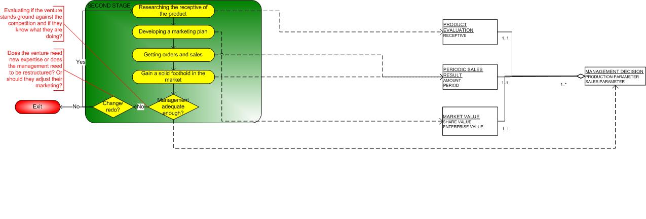 Process data model C